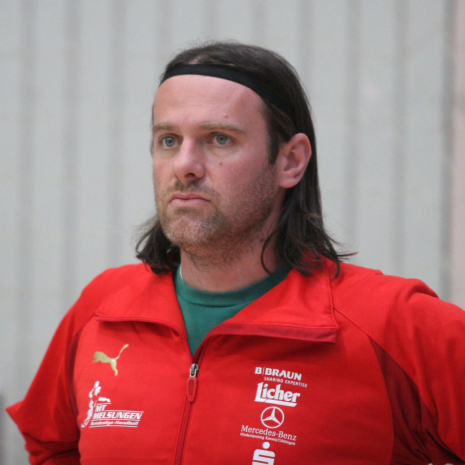 Mario Kelentrić, handball goalkeeper from Croatia, playing for MT Melsungen, on May 23rd 2009 in Aschaffenburg (Germany) prior the game TV Großwallstadt vers. MT Melsungen.